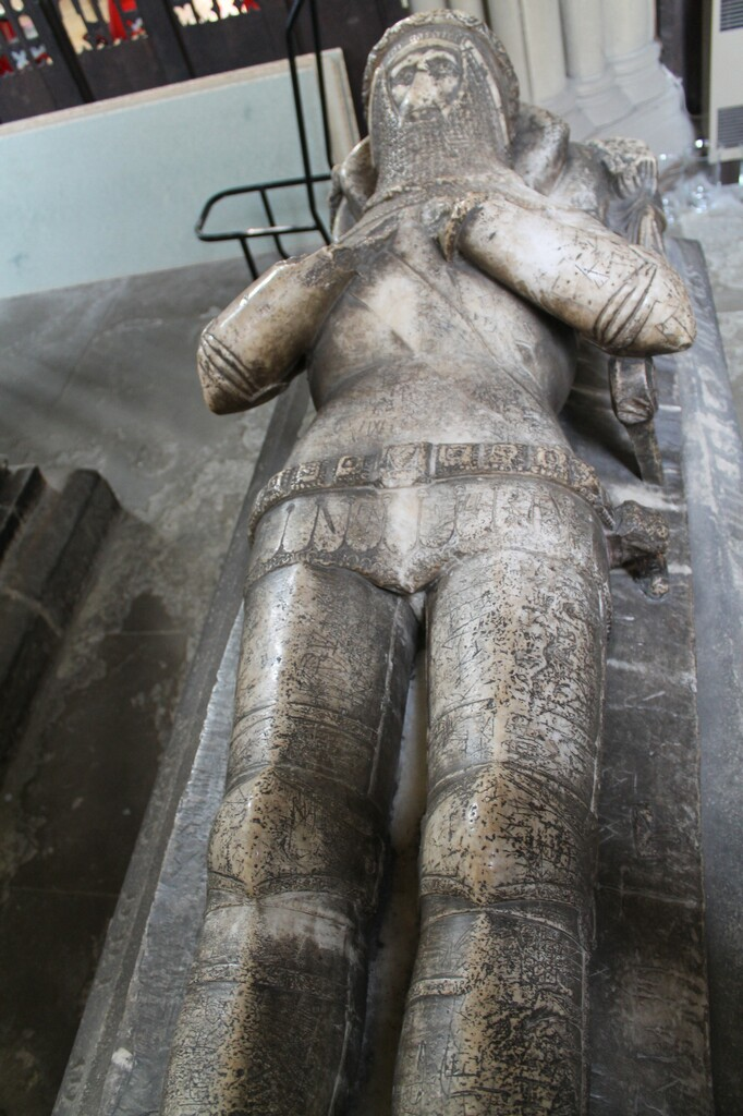 Sir Thomas Wendesley memorial, All saints', Bakewell